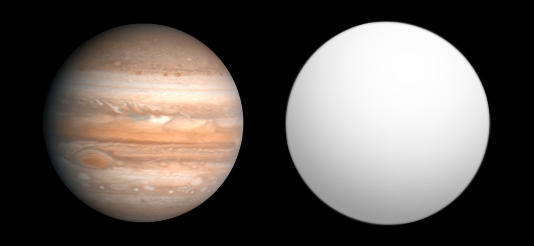 Comparison of best-fit size of the exoplanet HAT-P-21 b with the Solar System planet Jupiter, as reported in the Open Exoplanet Catalogue[1] as of 2010-09-30. ↑ Open Exoplanet Catalogue (2010-09-30). Retrieved on 2010-09-30.